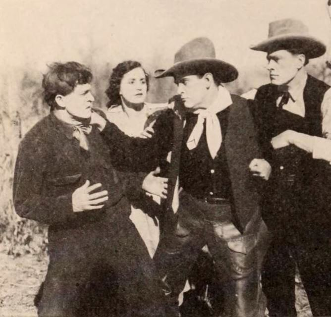 Still from the American western film Cotton and Cattle (1921) with Robert Conville, Ethel Dwyer, Jack Mower, and Al Hart, on page 86 of the April 23, 1921 Exhibitors Herald.